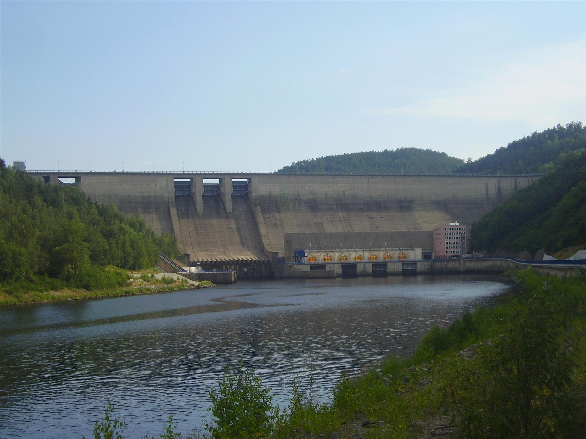 Dam of Orlík reservoir